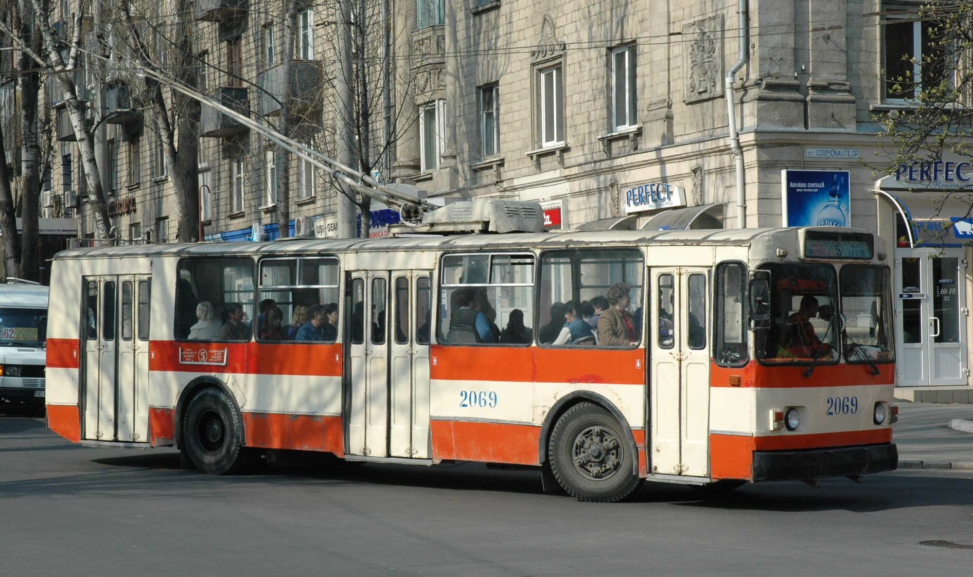 ZiU-9 trolleybus in Chisinau (Moldova)